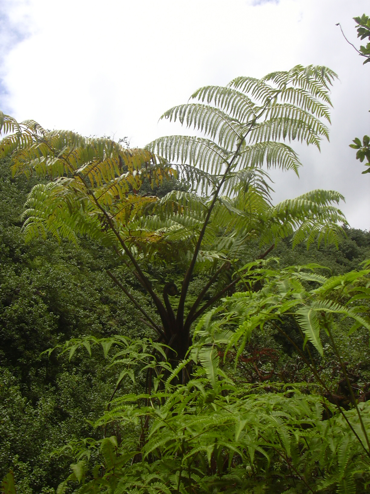 Cibotium menziesii (habit). Location: Maui, Kopiliula